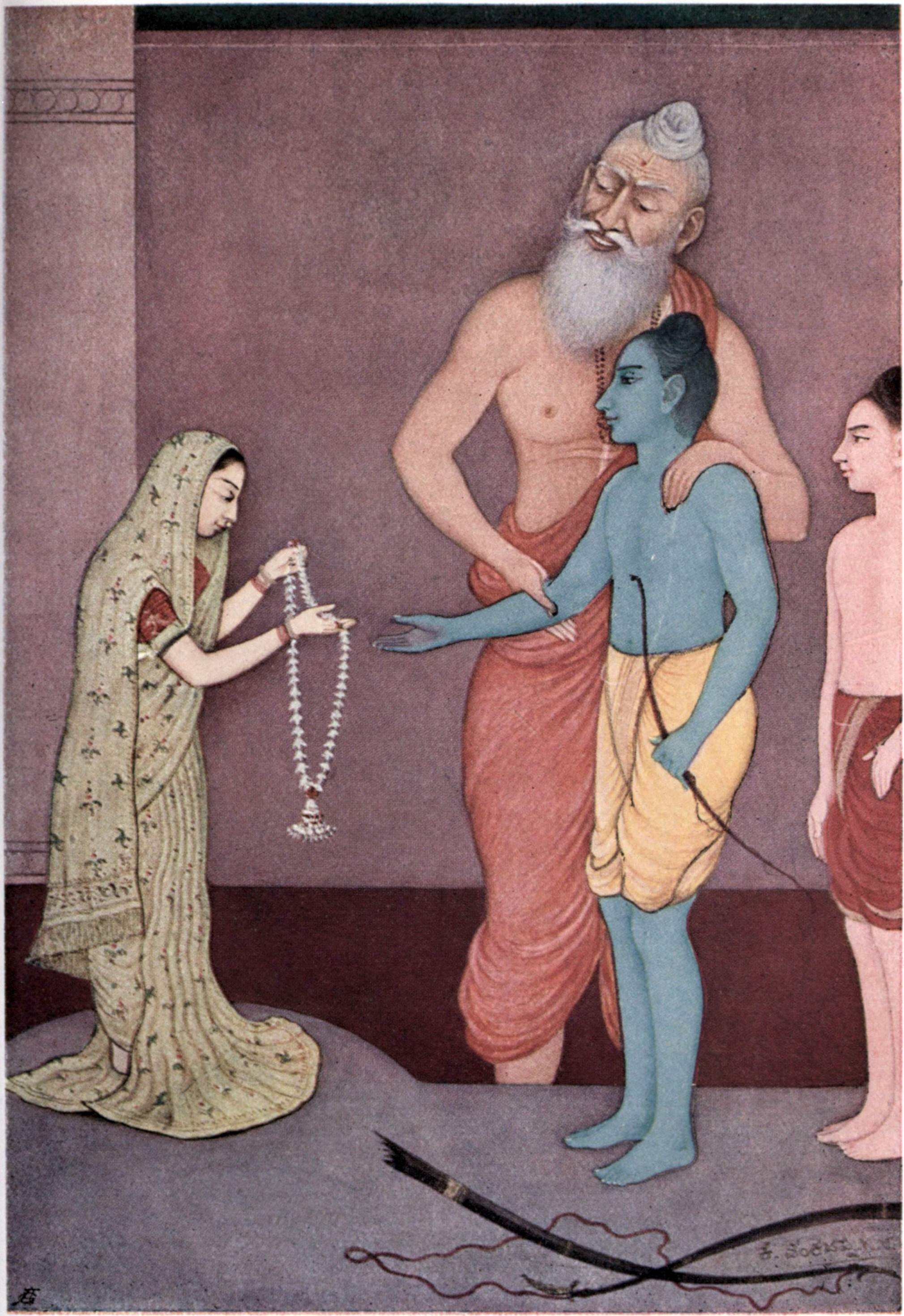 Myths of the Hindus & Buddhists (1914) p. 30: "Rama's marriage" by K. Venkatappa